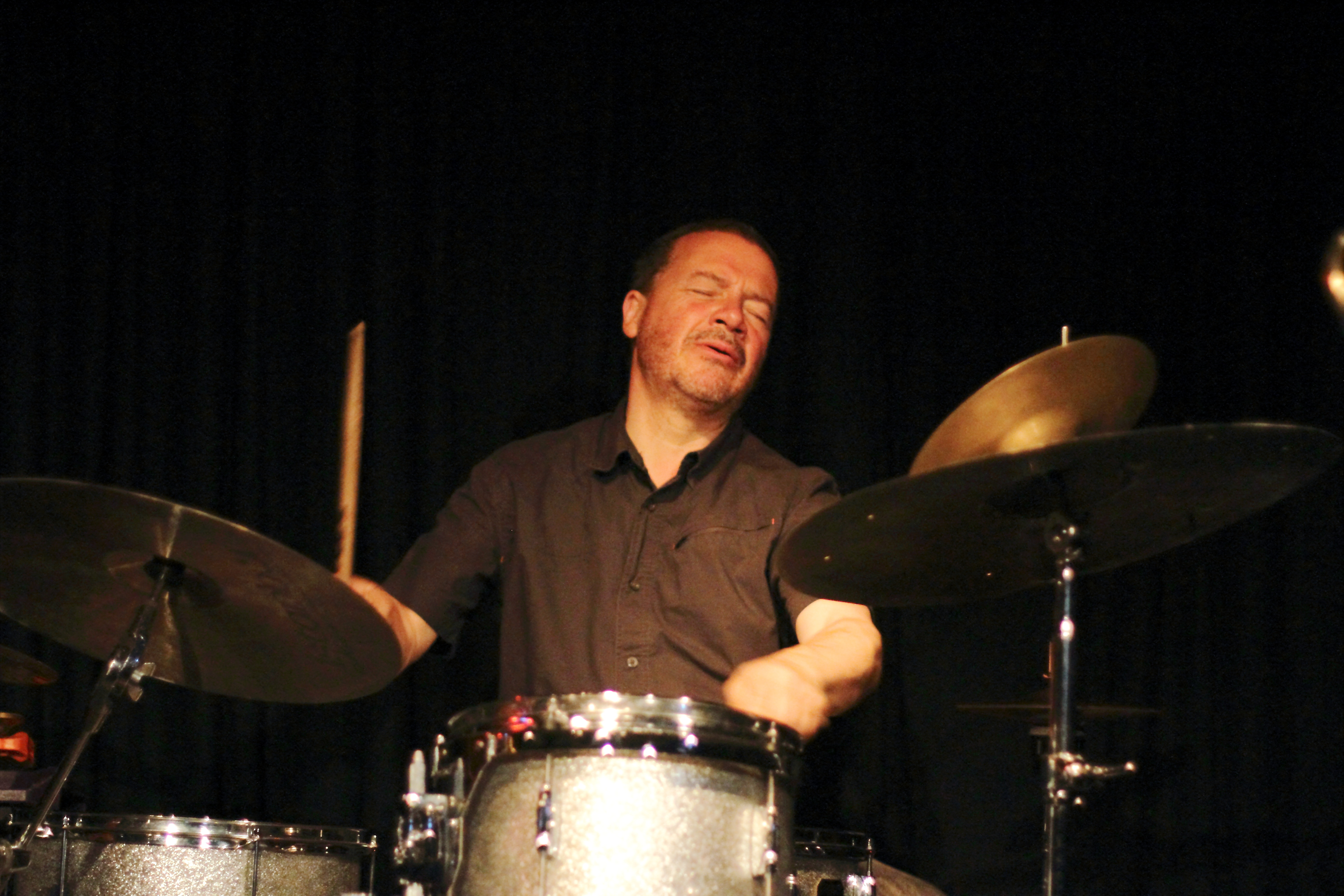 Mark Sanders & Foils Quartet at Club W71, 2016.